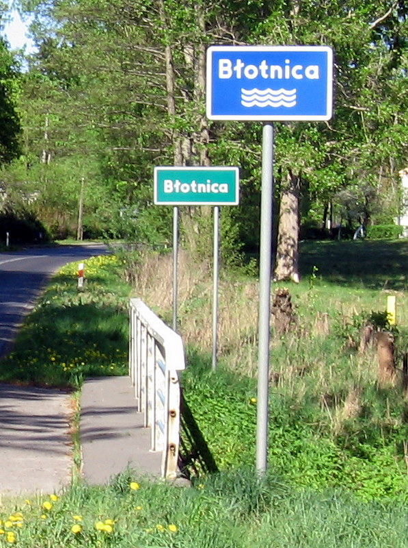 Road signs in Poland. City limit sign, river road sign (znak F-4].